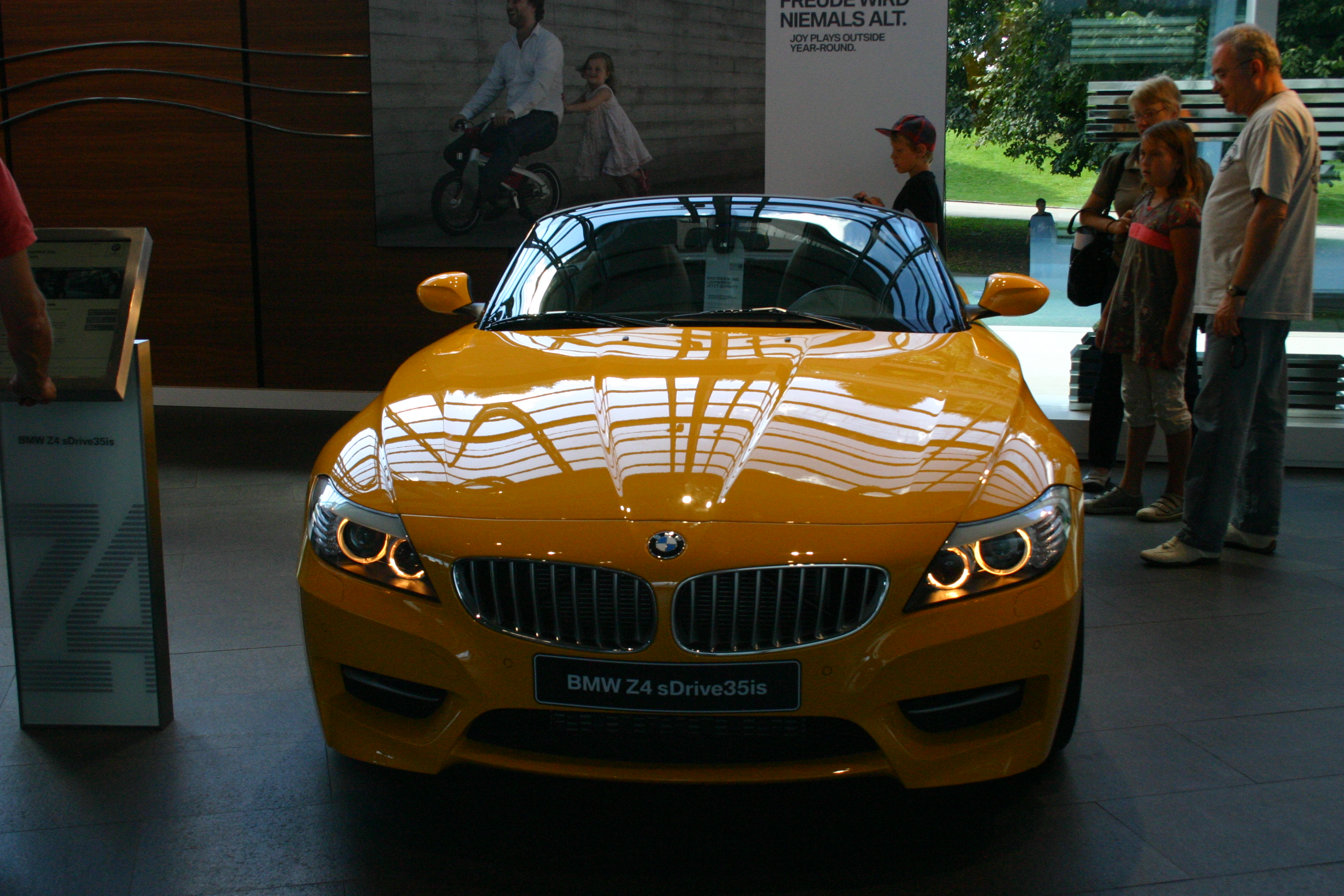 BMW Museum Car, BMW Z4 sDrive35is